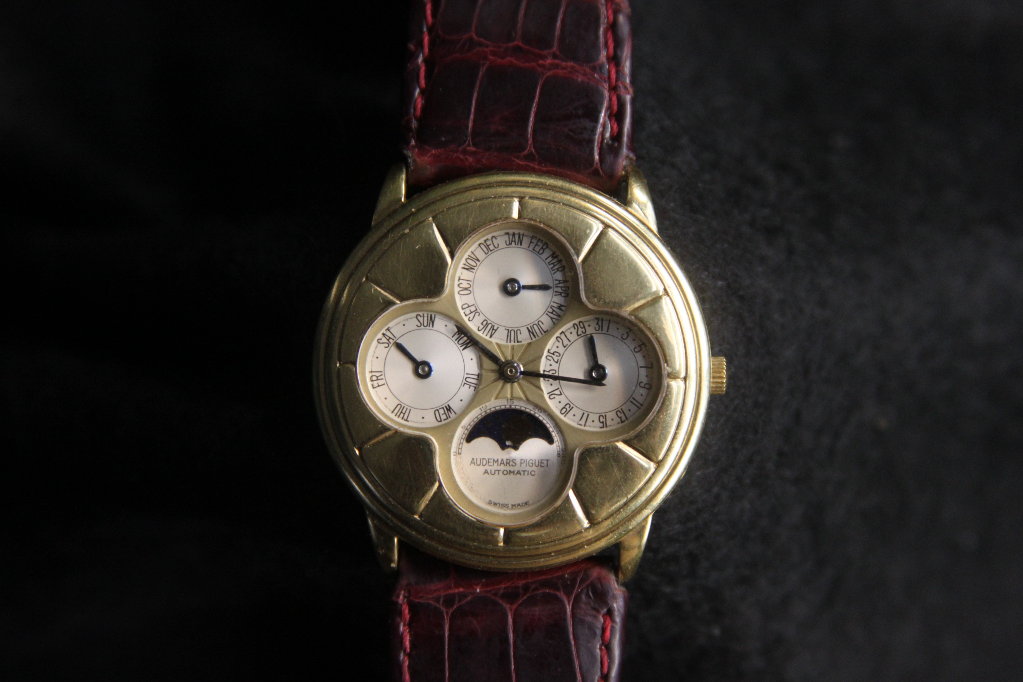 perpetual calendar wristwatch, Audemars Piguet